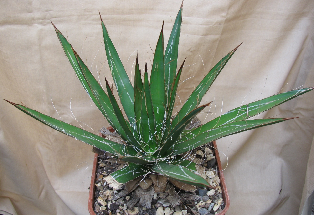 Agave filifera